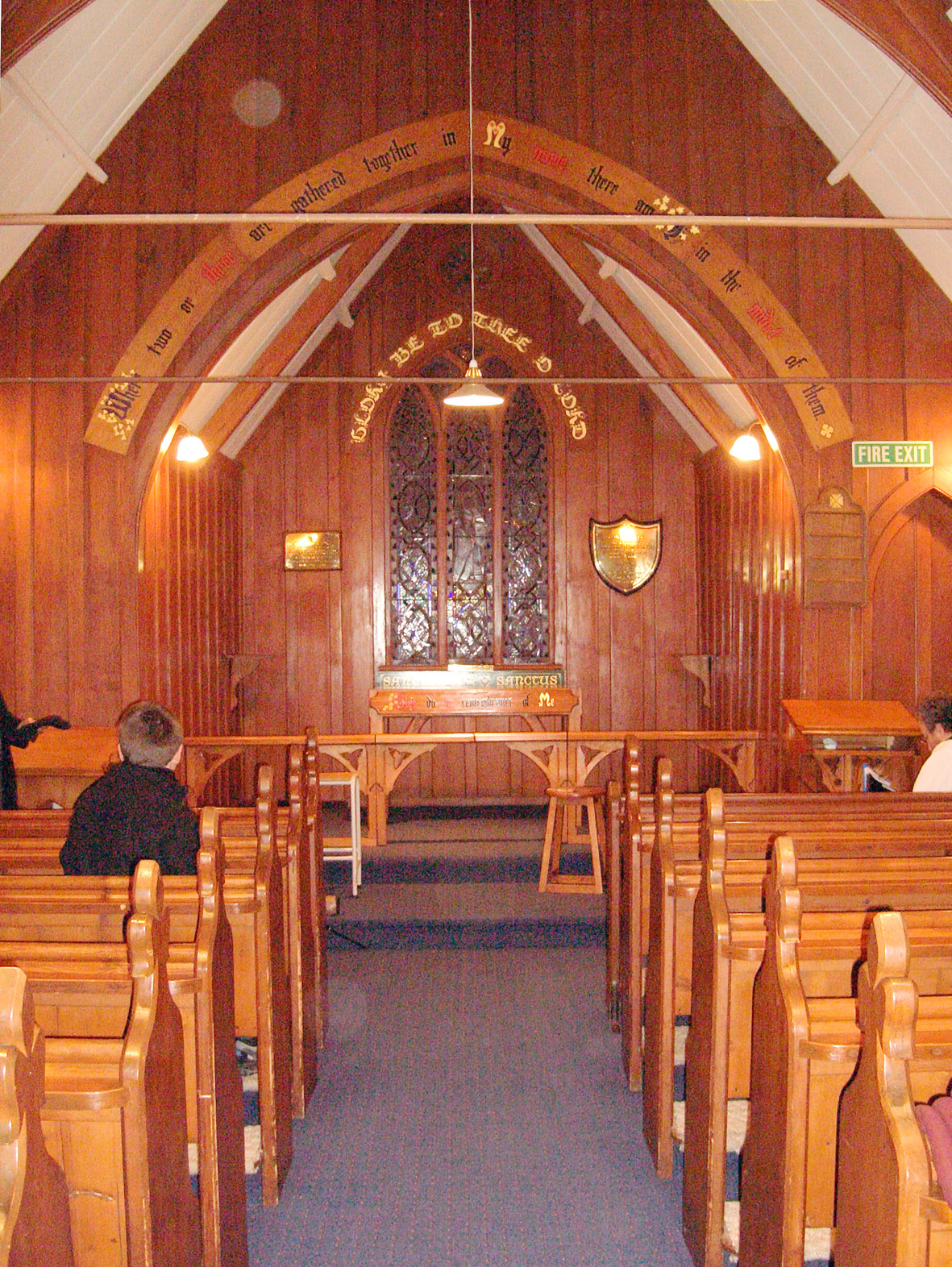 Wooden interior of St Barnabas Church, Warrington, an Anglican church in Warrington, New Zealand near Dunedin. Photo by Blueskin Media is copyleft and may be freely re-edited and republished.